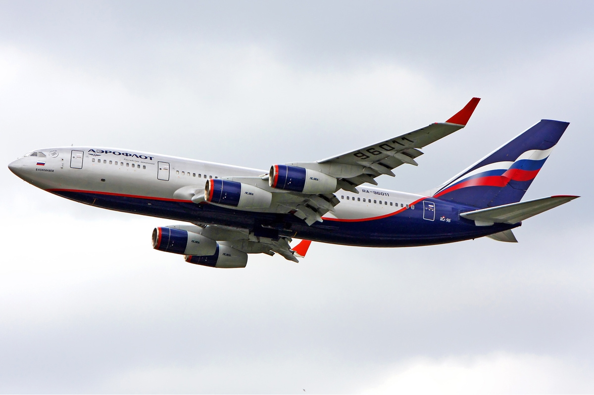 Aeroflot Ilyushin Il-96-300 RA-96011